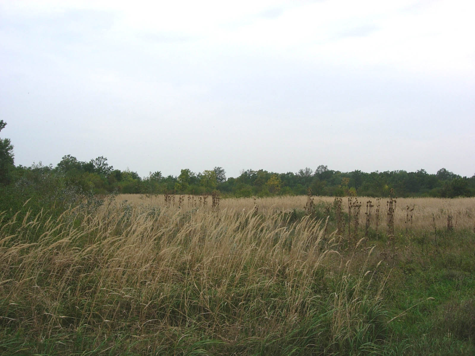 The Molin Forest in vicinity of Nova Crnja. Until 1961 here existed a settlement named Molin, but was abandoned because of groundwater.